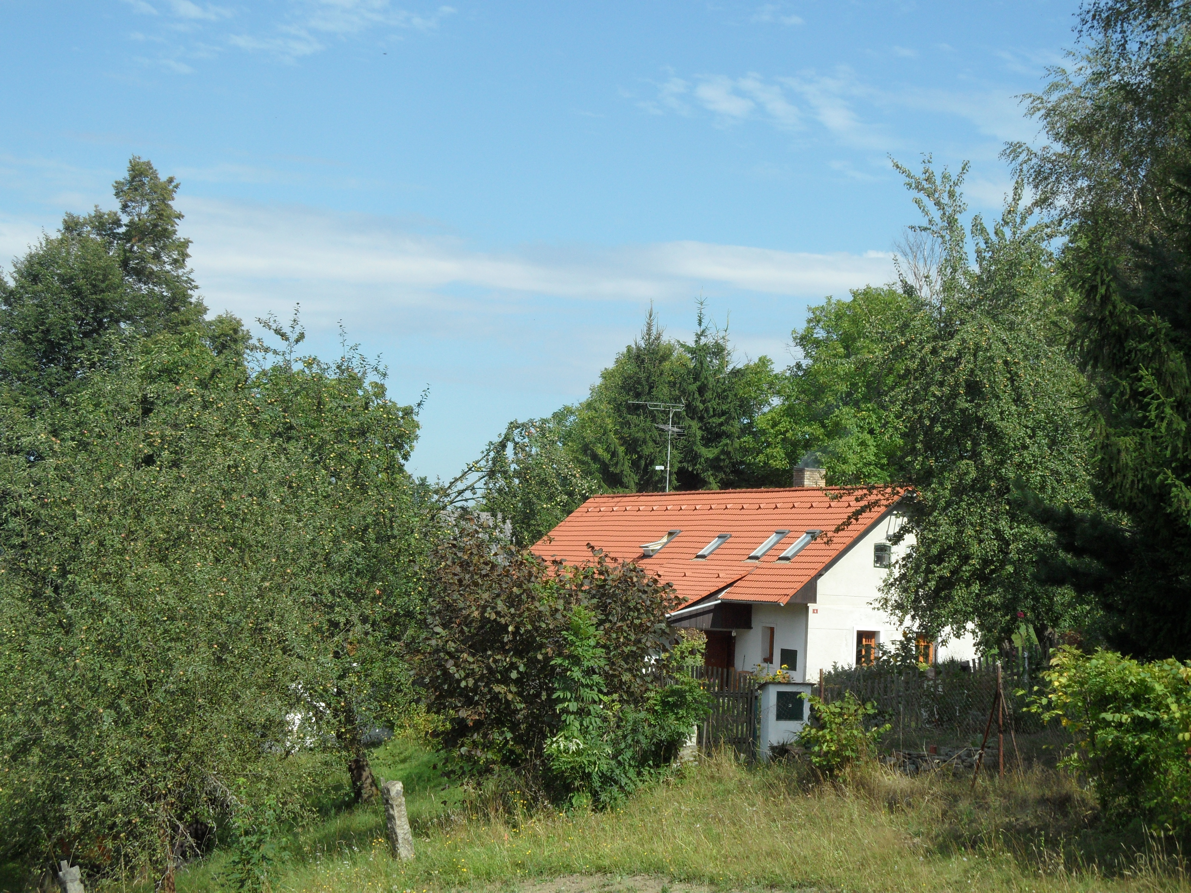 Milanovice C. House in This Small Village, Kutná Hora District, the Czech Republic.